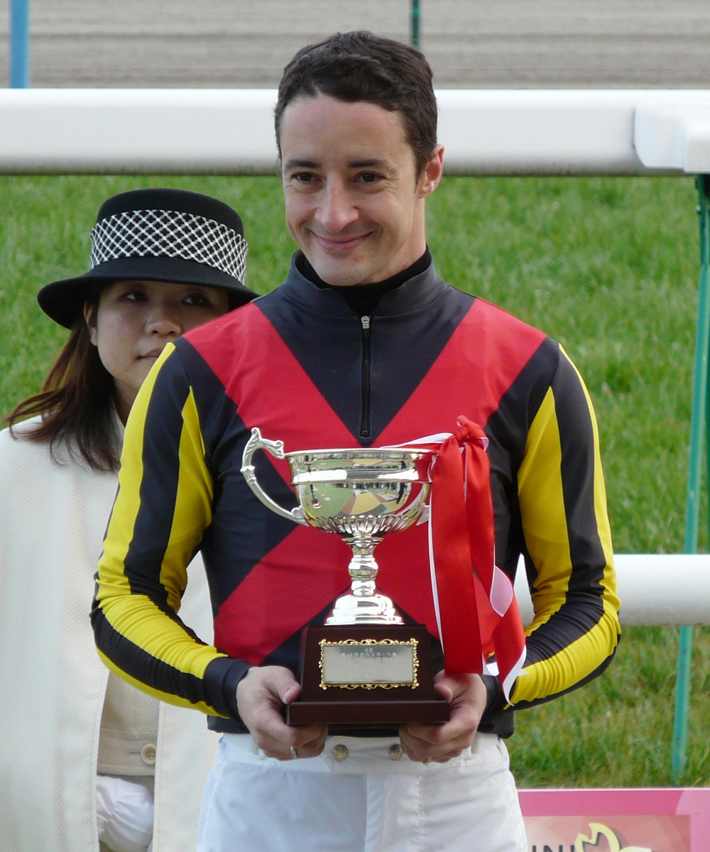 Christophe-Lemaire20120108